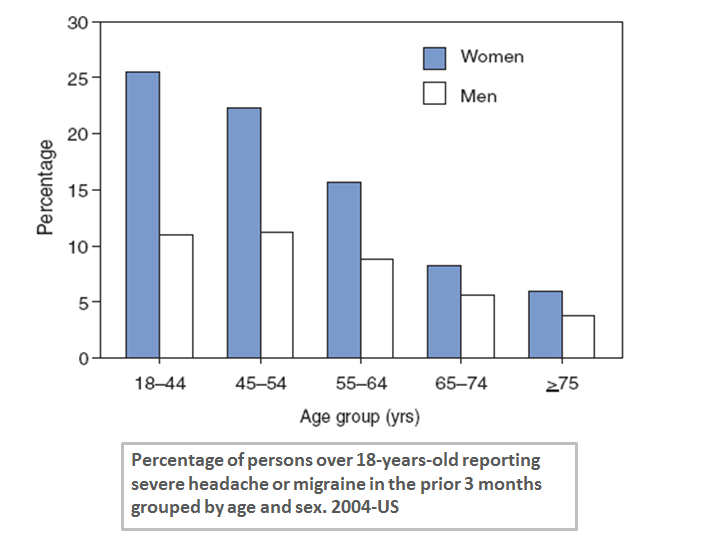 Headache and migraine prevalence statistics.